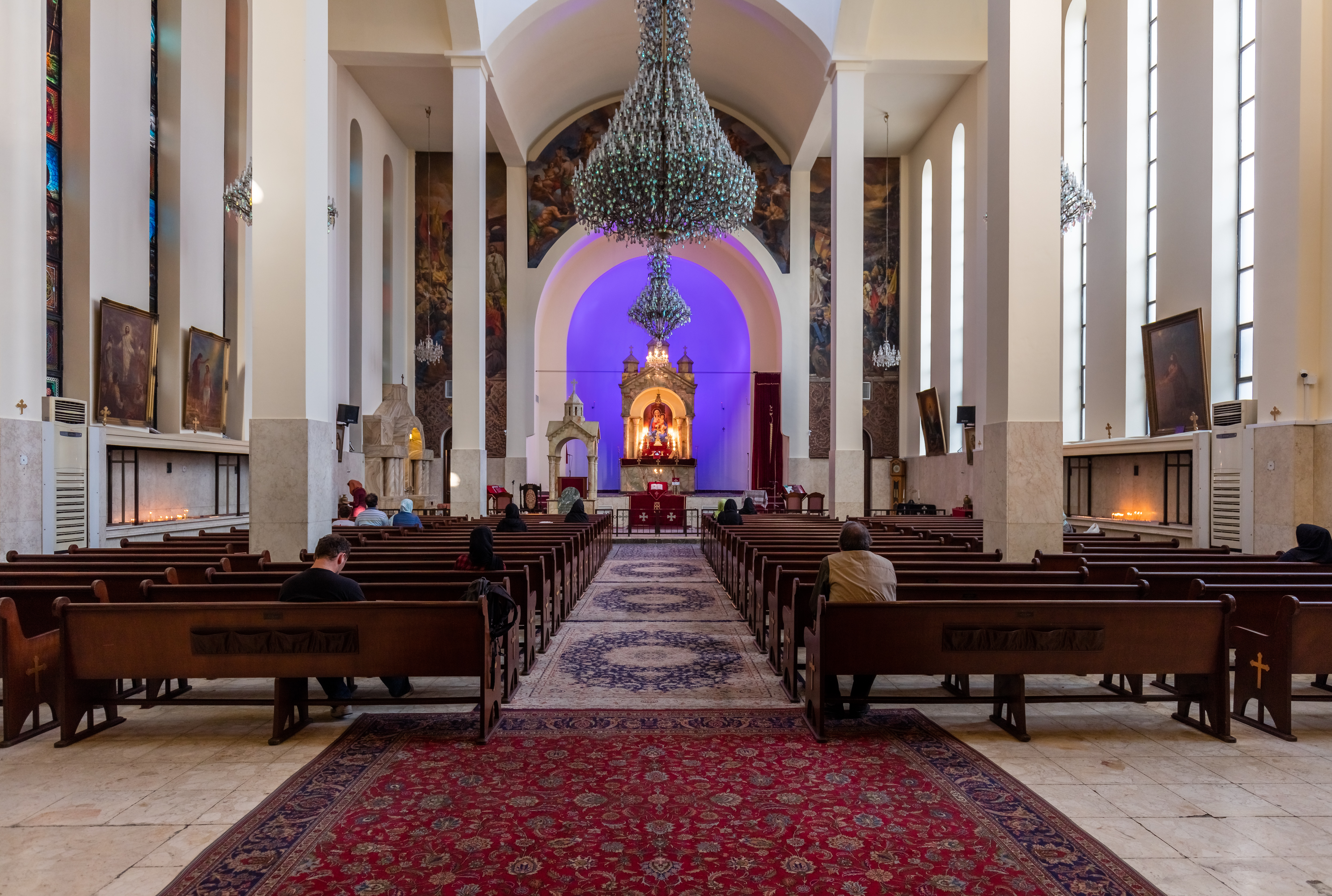 Main nave of the St. Sarkis Cathedral, Tehran, Iran. The Armenian Apostolic temple was constructed between 1964 and 1970 and was work of Serkisian brothers in memory of their parents.